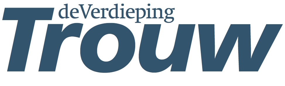 Logo of the Dutch newspaper Trouw